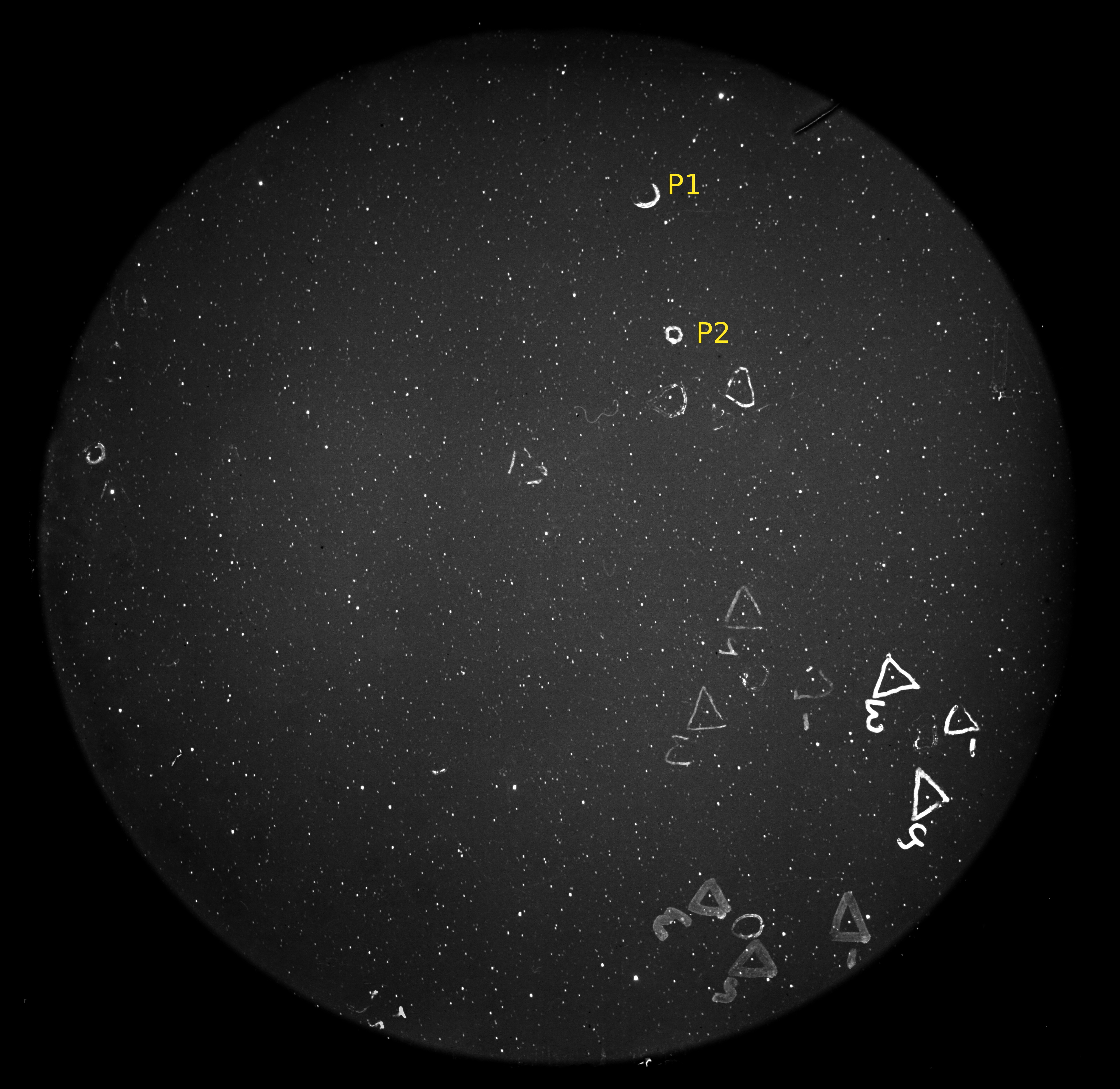 The discovery plate of 1740 Paavo Nurmi, obtained on 18 October 1939 at Iso-Heikkilä observatory, Turku, Finland by Yrjö Väisälä. Exposure time 2 x 6 mins. The telescope was slightly moved in Declination between the exposures. P1 and P2 are the positions of Paavo Nurmi during the two exposures. Original glass plate from the plate archive of Tuorla Observatory, Finland.